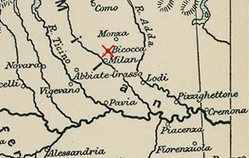 Map of Lombardy in 1522, at the time of the Battle of Bicocca. The location of the battle is indicated.